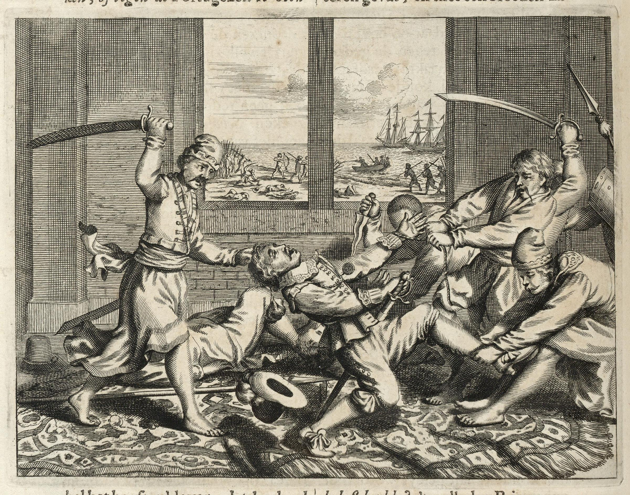 The murder of Sebald de Weert (1603). The king of Matecalo (Baticoloa) and his retinue attend the arrival of vice admiral De Weert. When the king hears that De Weert, contrary to a contract he sealed with the king, has released Portuguese prisoners and De Weert goes on to insult the king, the Dutchman pays for it with his life.